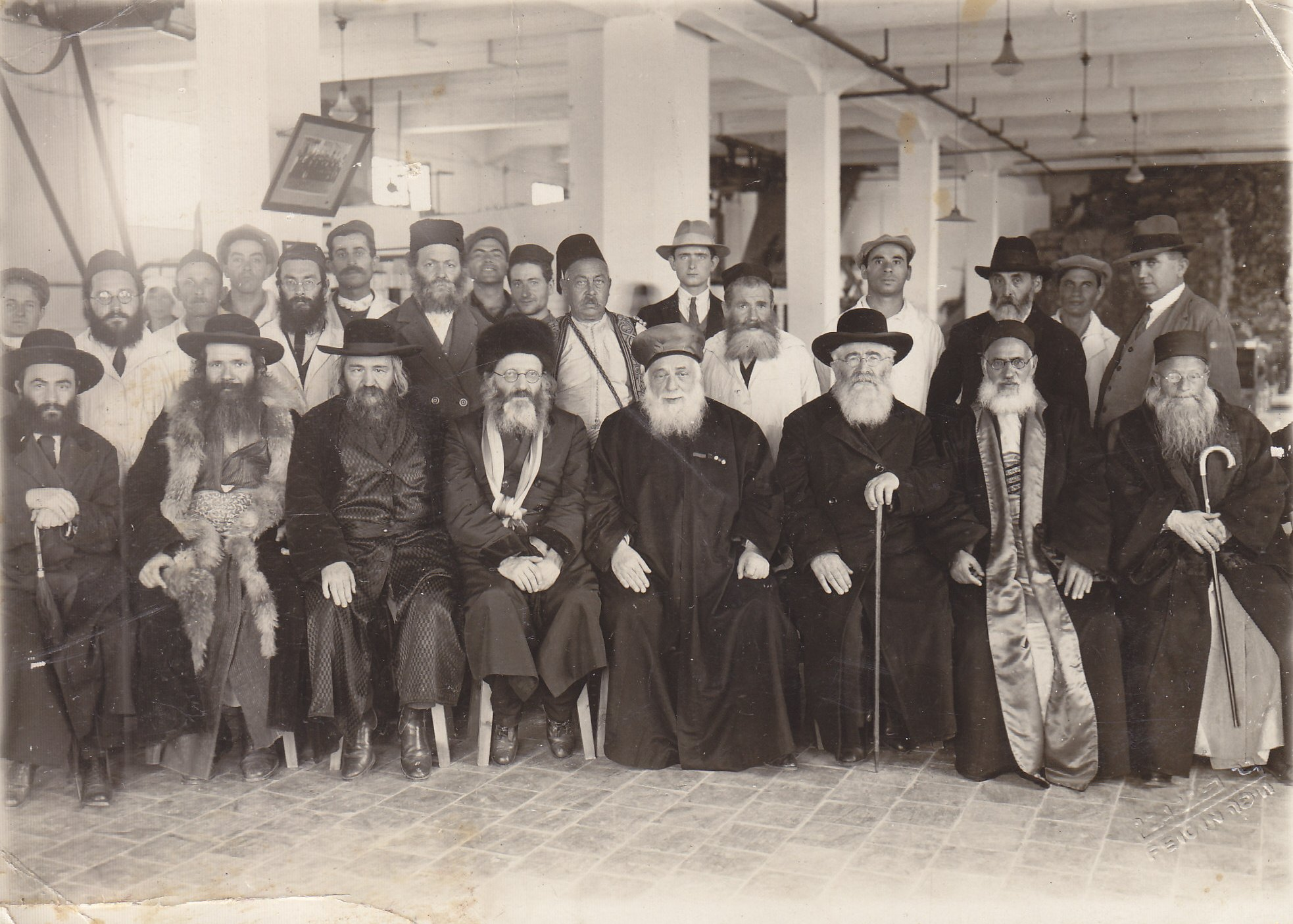 The visit of the rabbis to Haifa power plant.